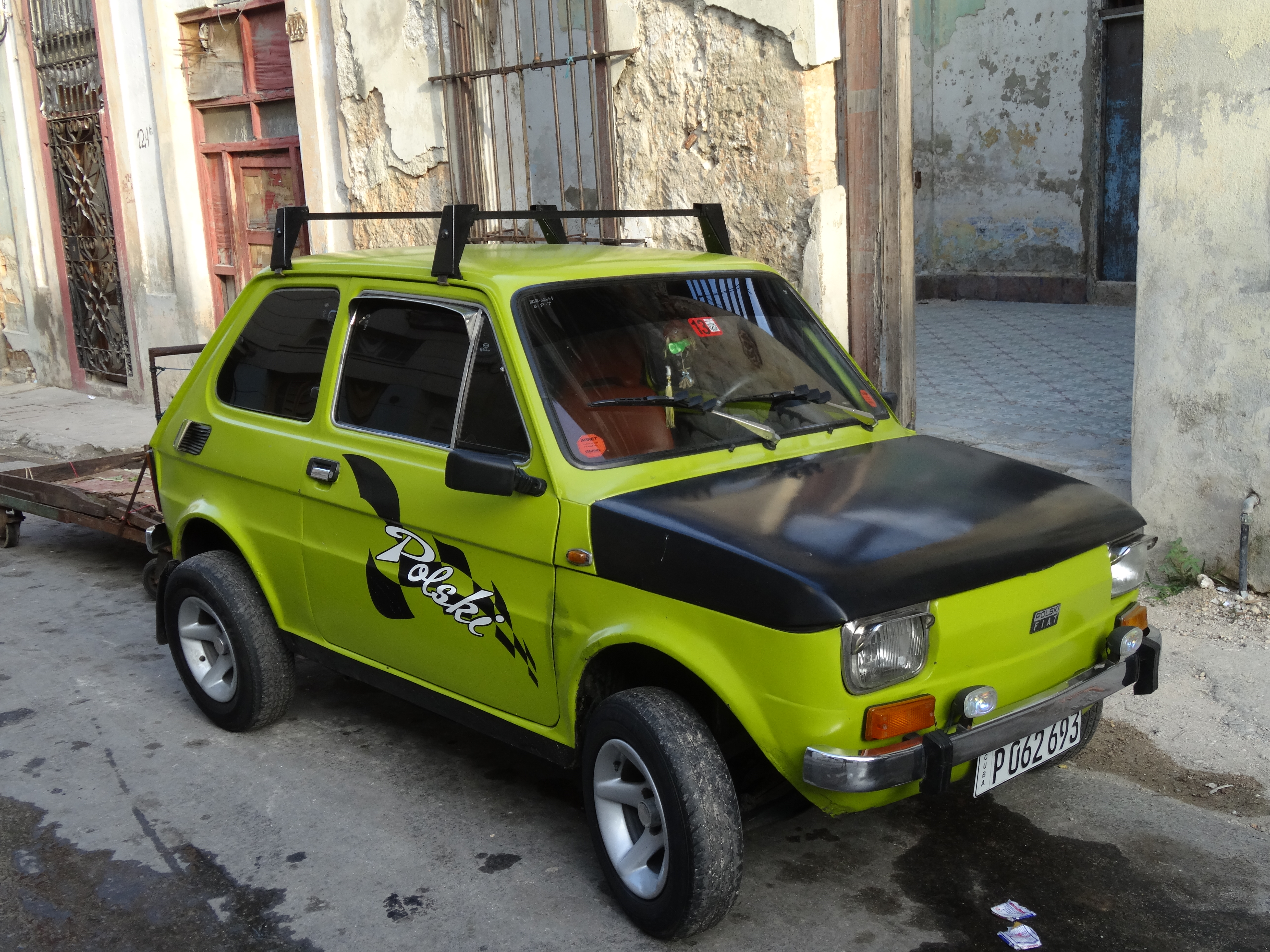 Cuba, Havana, FIAT 126p Polski